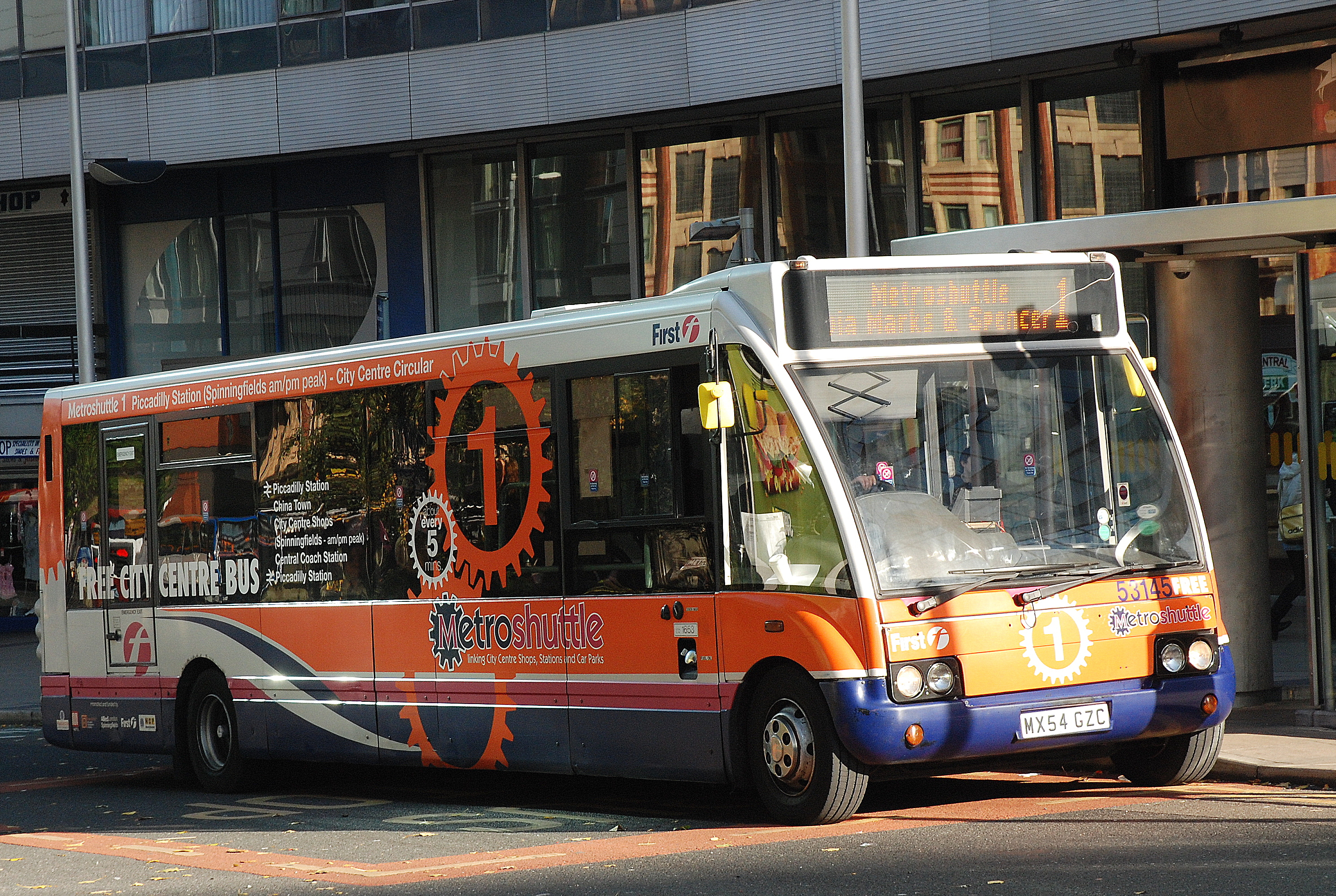 First Manchester bus 53145 (reg. MX54 GZC), a 2004 Optare Solo M950 midibus, at Manchester Piccadilly railway station, Manchester, on Manchester Metroshuttle route 1.